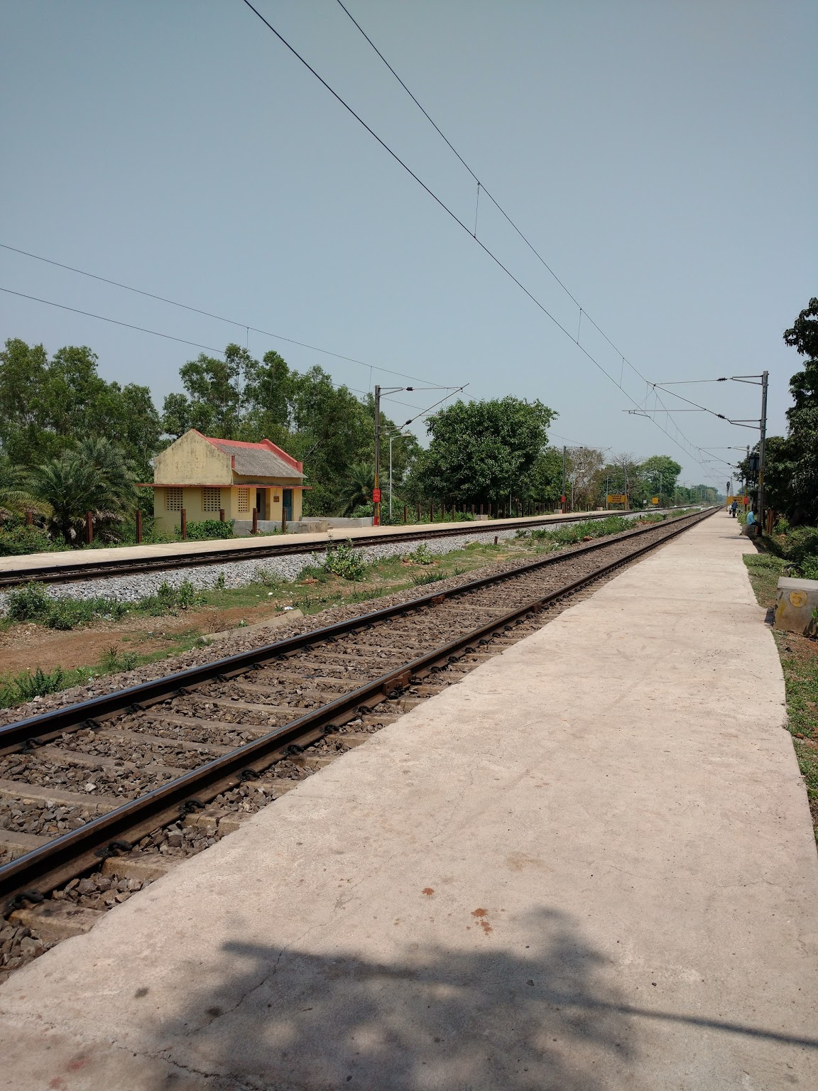 This is the Picture of Golabai railway station